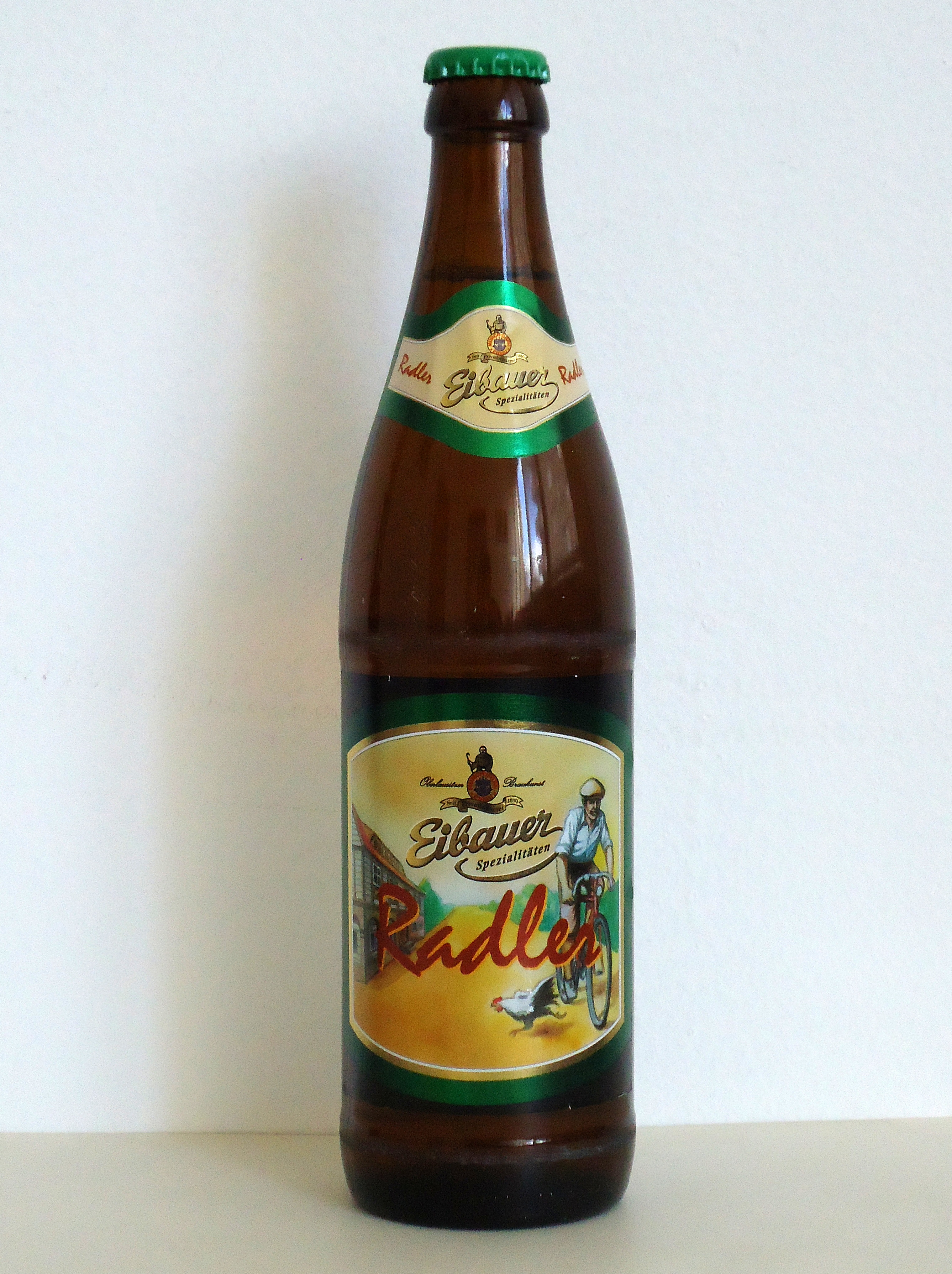 Eibauer Radler beer